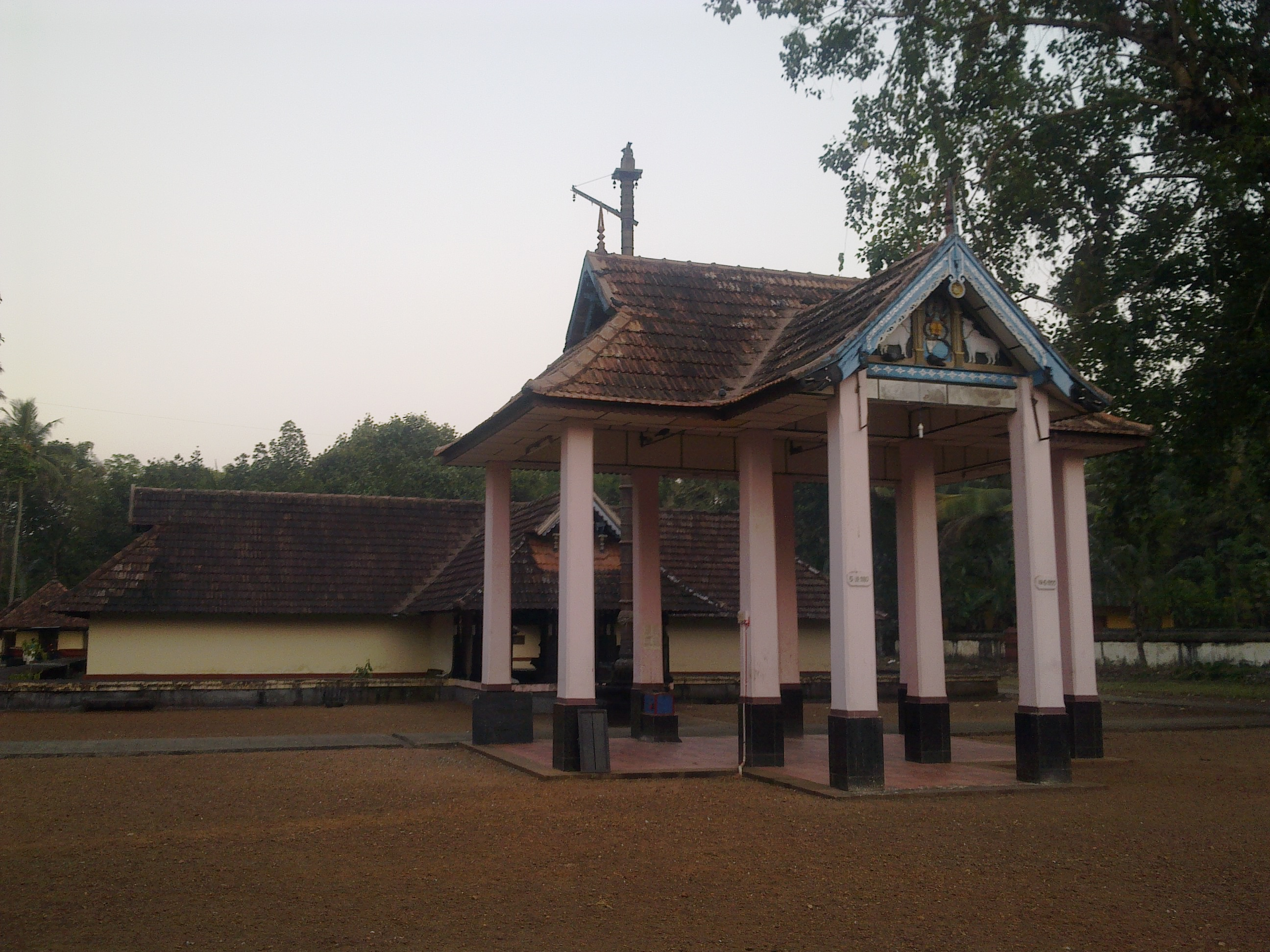 manikandapurm temple